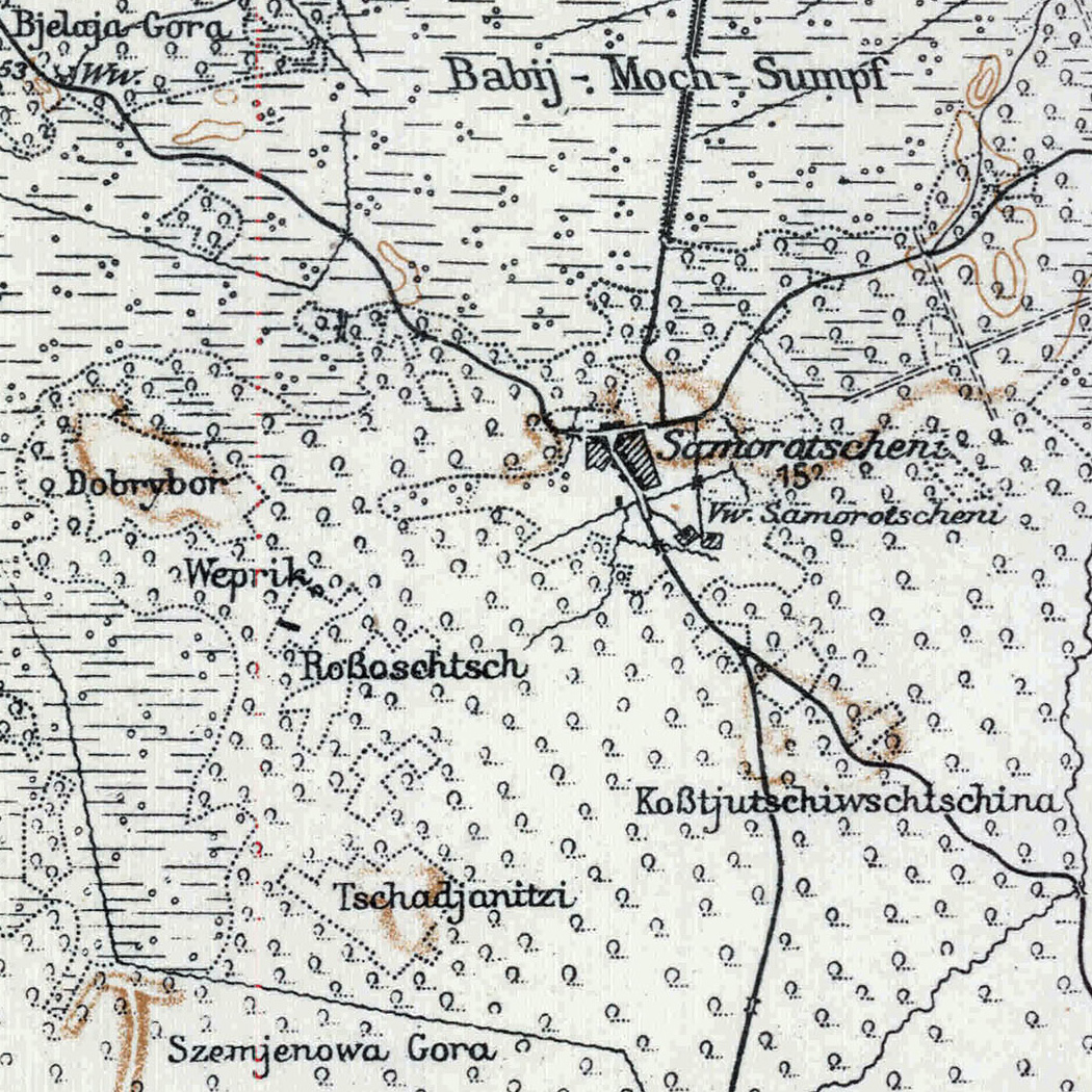 Zamorochennia on the map "Karte des Westlichen Russlands", T 35, 1917. According to Digital Repository of Scientific Institutes and Kujawsko-Pomorska Digital Library the map is in the public domain.